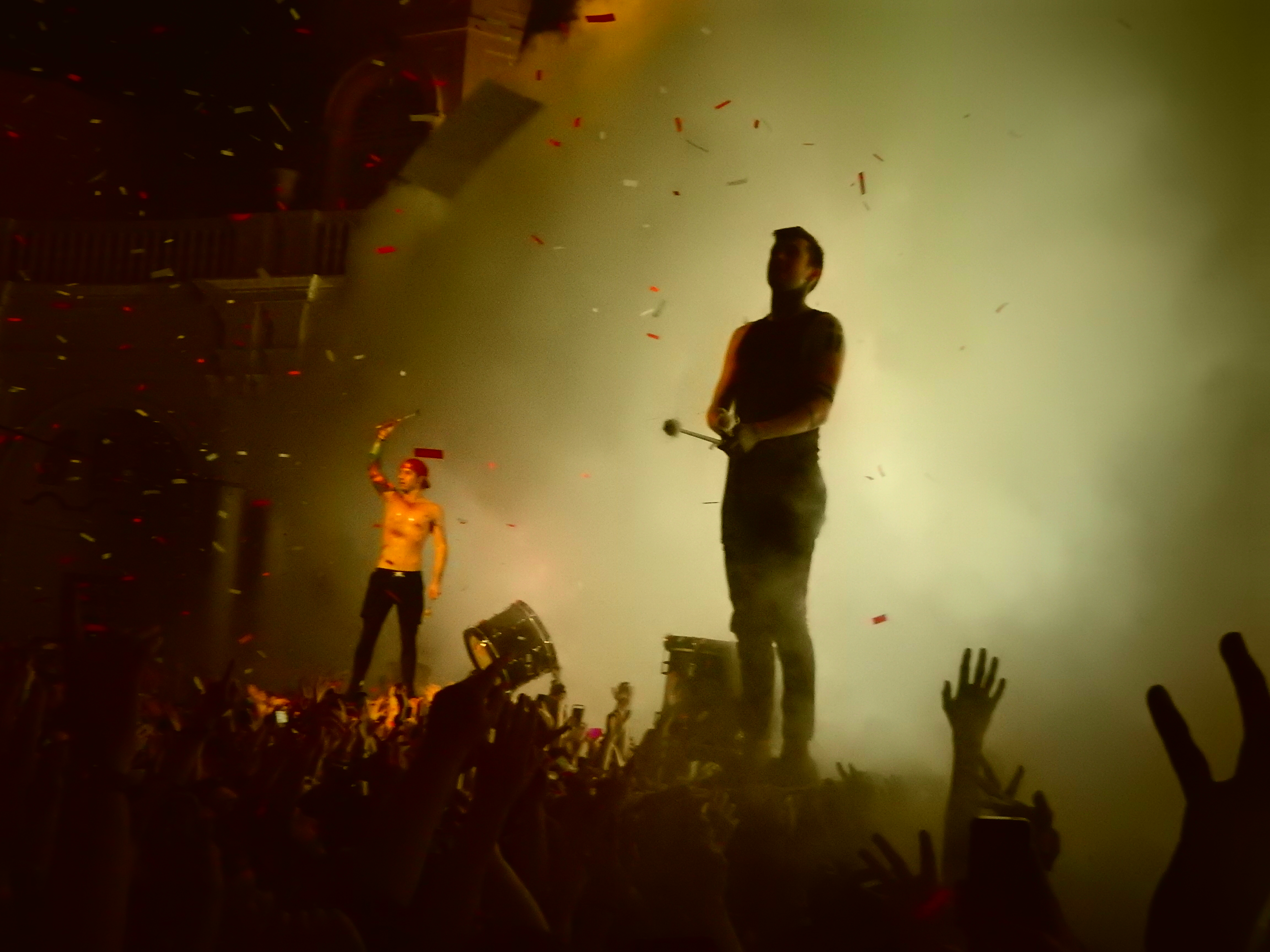 Twenty One Pilots, Brixton Academy, London